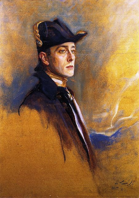 Louis Francis Albert Victor Nicholas Mountbatten